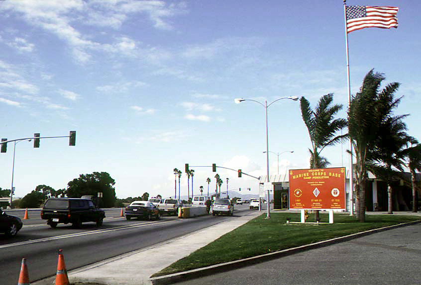 The main gate of Camp Pendleton. This is the main road for traffic into the base. This gate has been open and manned by Marines 24 hours a day since 1942. Location: MARINE CORPS BASE CAMP PENDLETON, CALIFORNIA (CA) UNITED STATES OF AMERICA (USA).